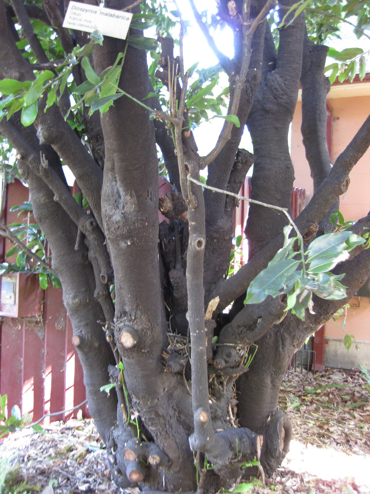 Photographed at the Royal Botanic Gardens Sydney (Australia) in December